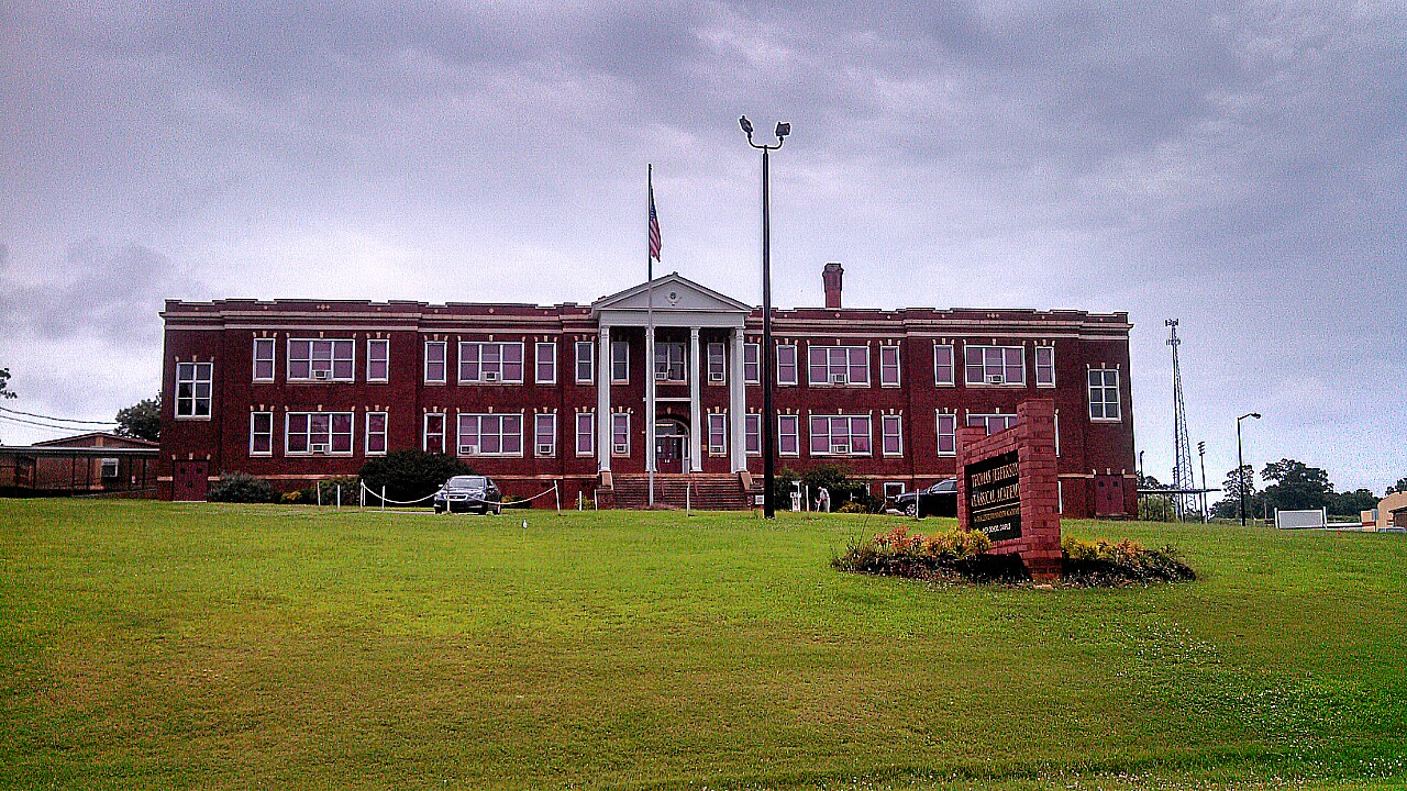 Henrietta-Caroleen High School Now Thomas Jefferson Classical Academy